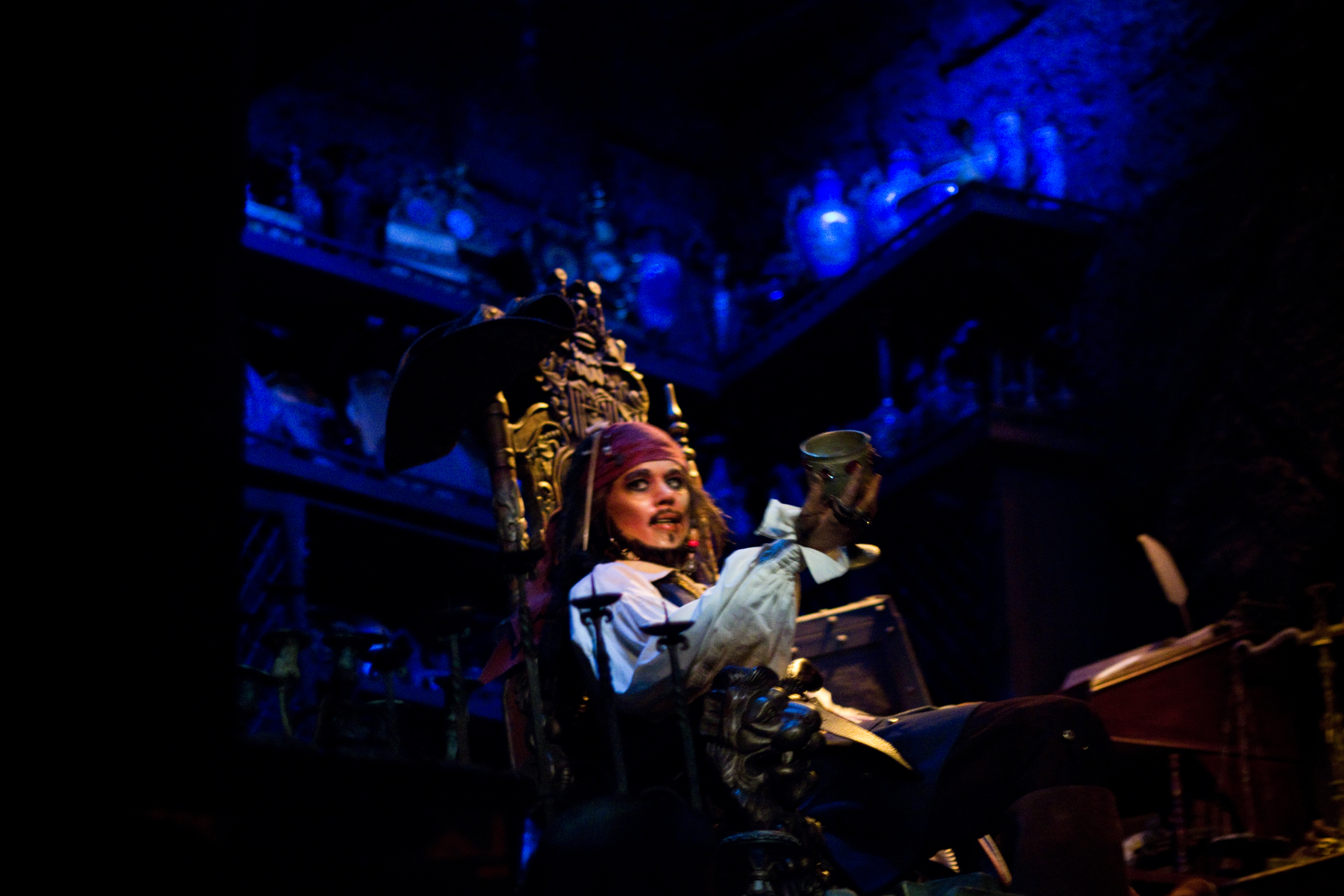 Audo-animatronic Jack Sparrow, inside Pirates of the Caribbean in Disneyland.